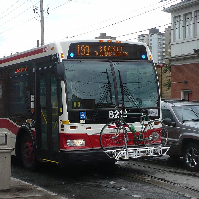 Bicycle rack on the front of a TTC bus in Toronto